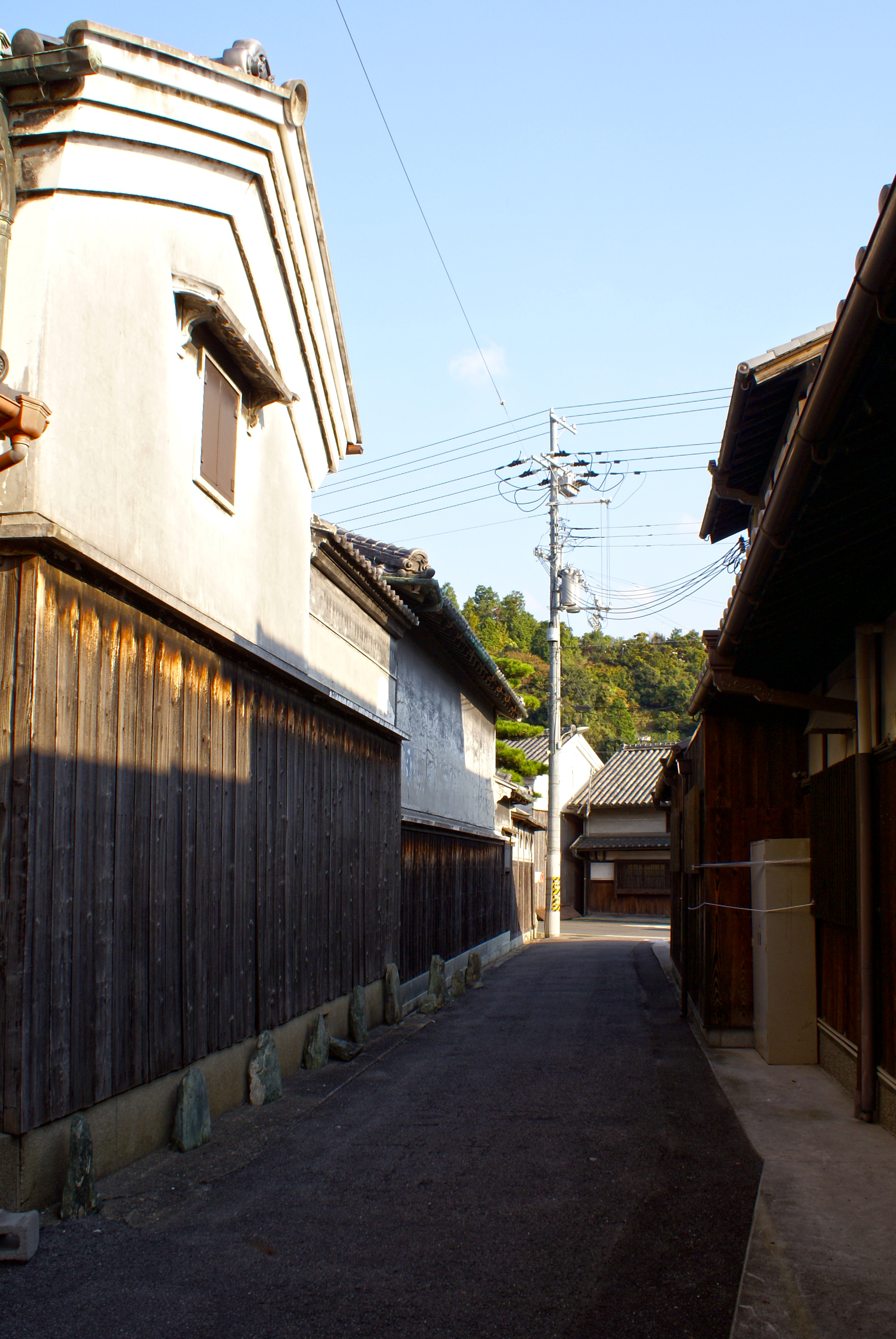 Kuroe, Kainan, Wakayama prefecture, Japan